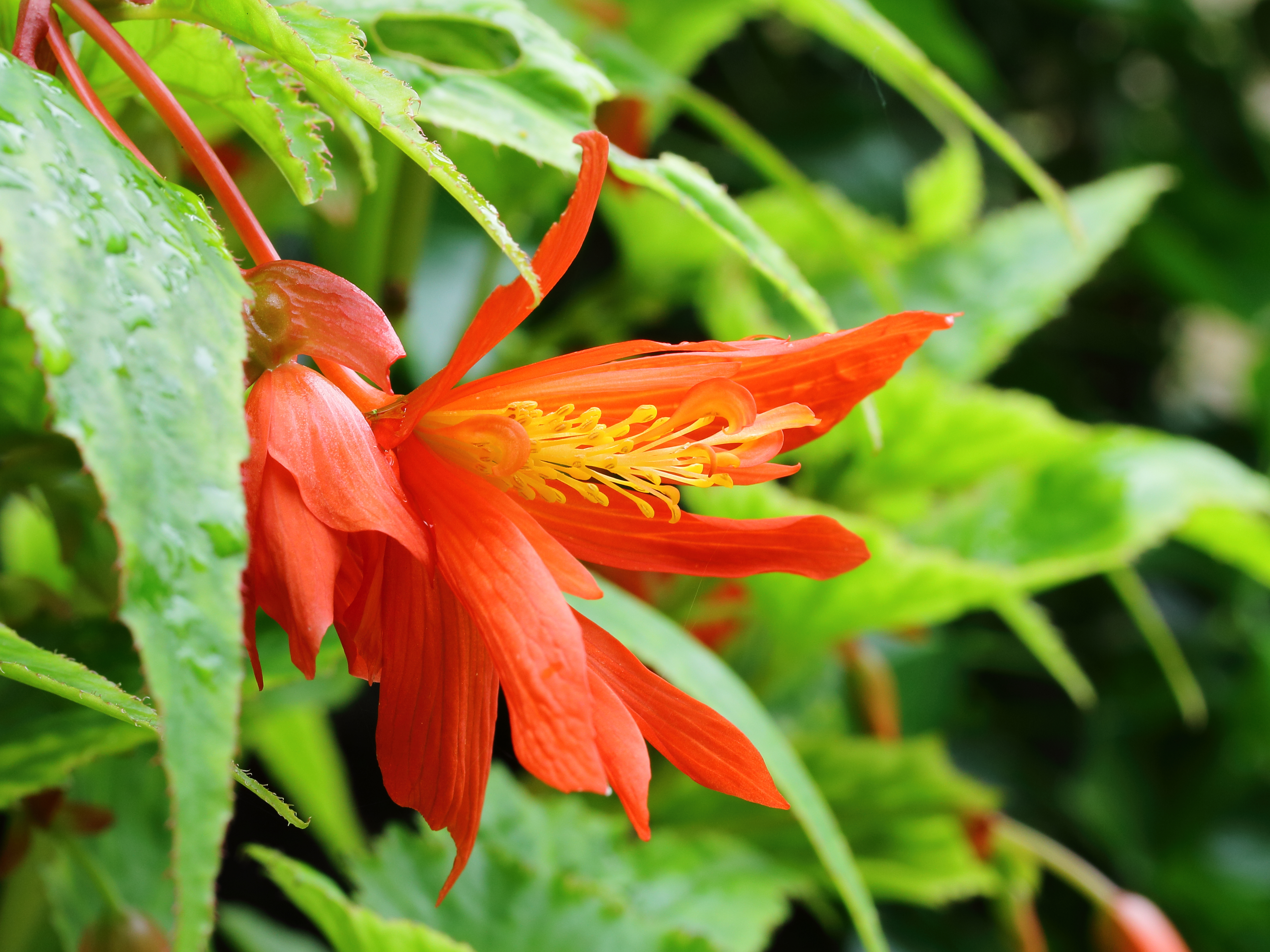 Flower Begonia pendula.